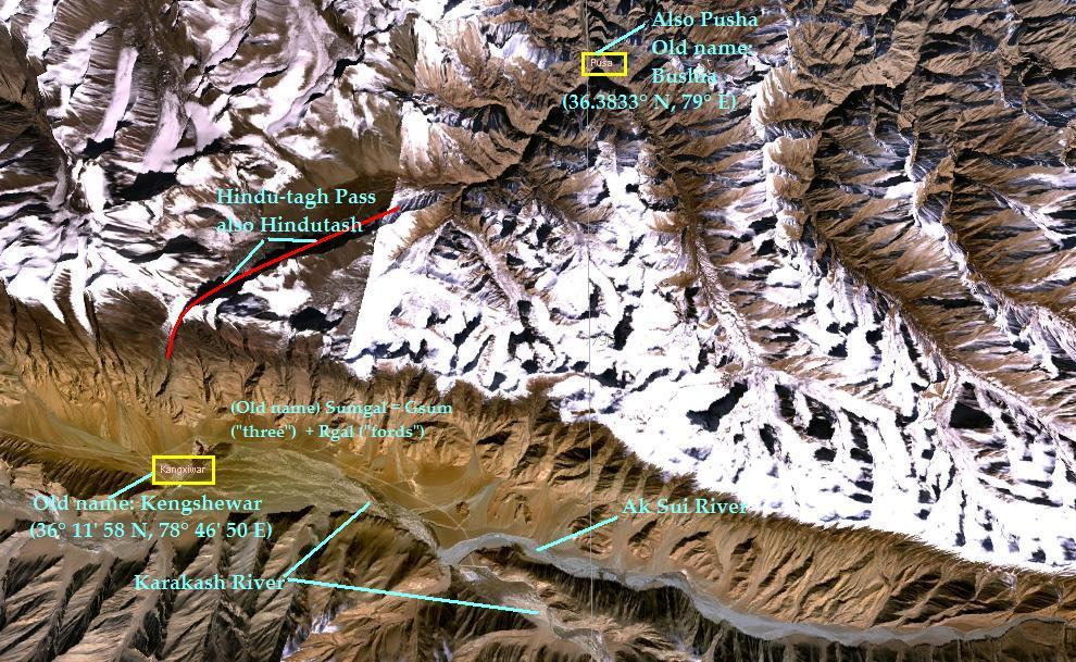 NASA WorldWind screen shot of the Karakash River Region in China showing the Hindu-tagh pass, and the towns of Kangxiwar (formerly Sumgal) and Pusa (also Pusha, formerly Bushia). Annoted by Fowler&fowler«Talk» 12:54, 10 July 2007 (UTC)